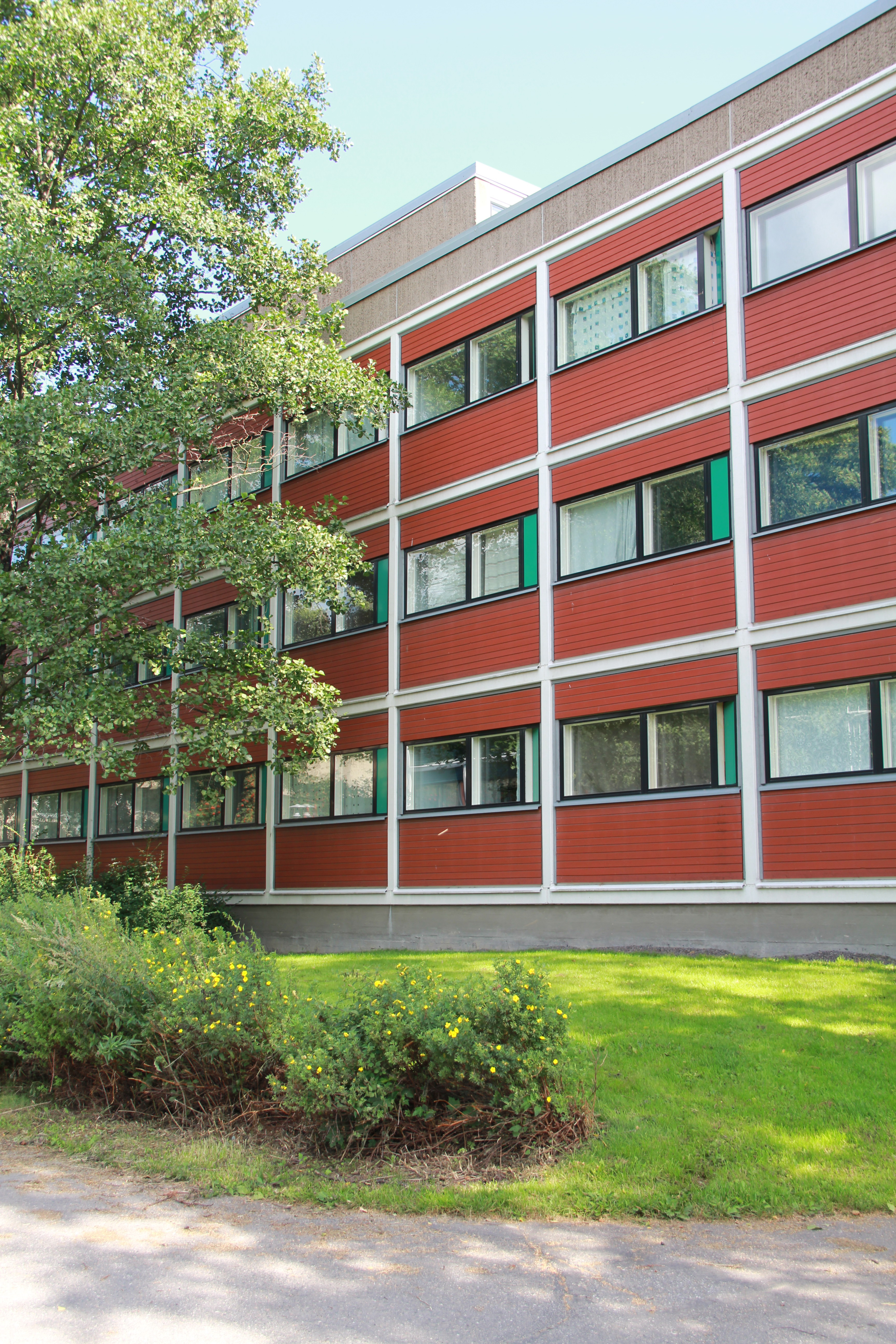 Turku Student Village, western part, Turku, Finland. Built in 1970's, architects Erkki Valovirta and Jan Söderlund.